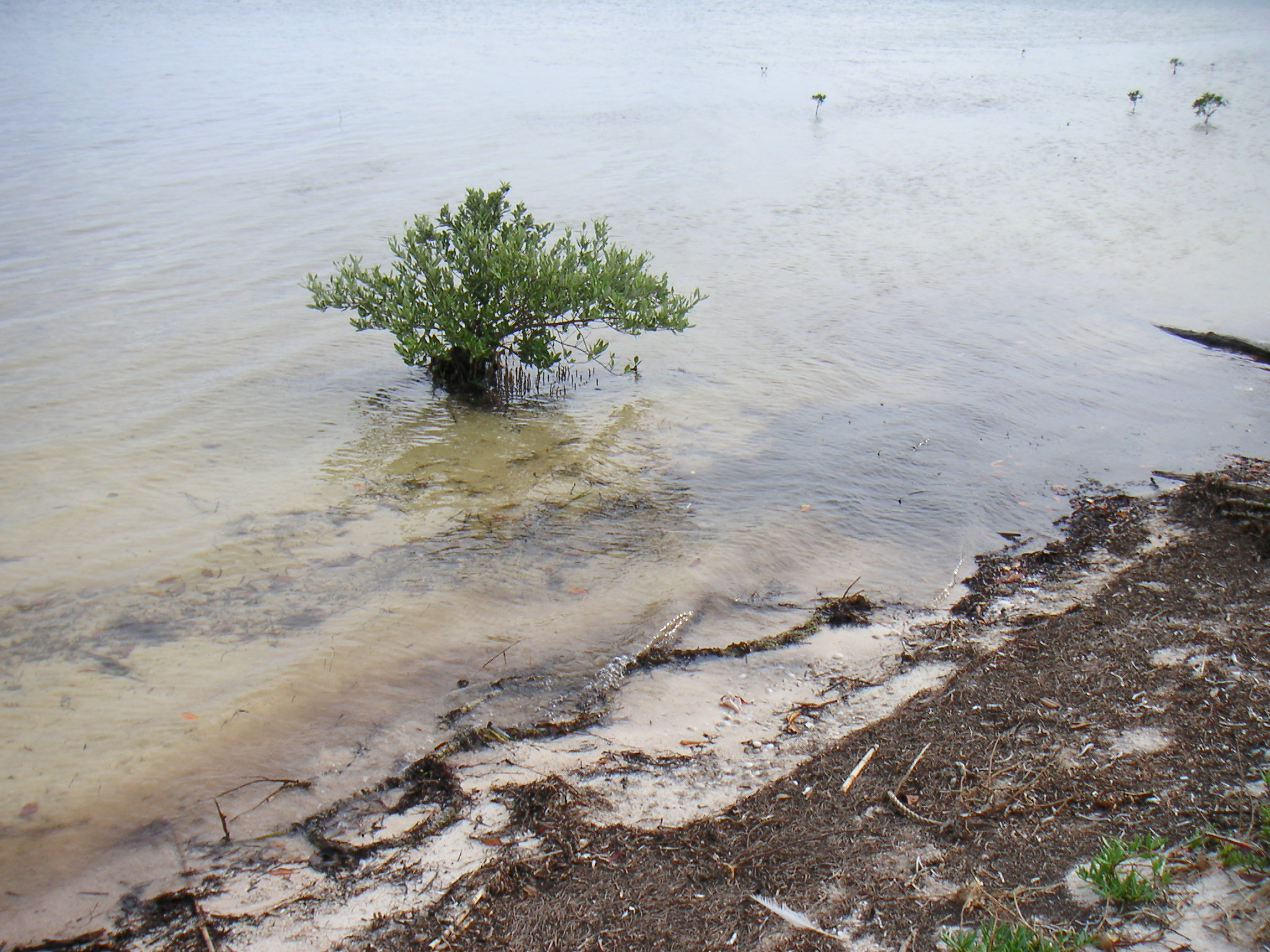 Avicennia germinans (Acanthaceae-Avicennioideae)